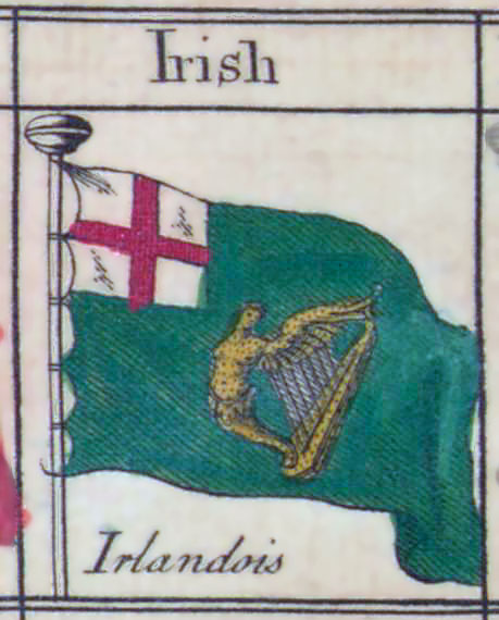 Unofficial Irish green ensign, from "Bowles's Universal Display of the Naval Flags of all Nations" maritime flag chart, 1783.